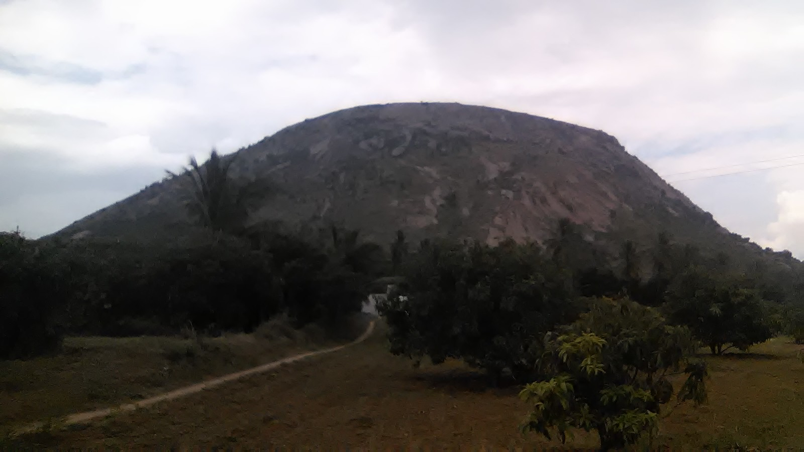 போளுதிம்மராயன் துர்கம் மலையின் தோற்றம்